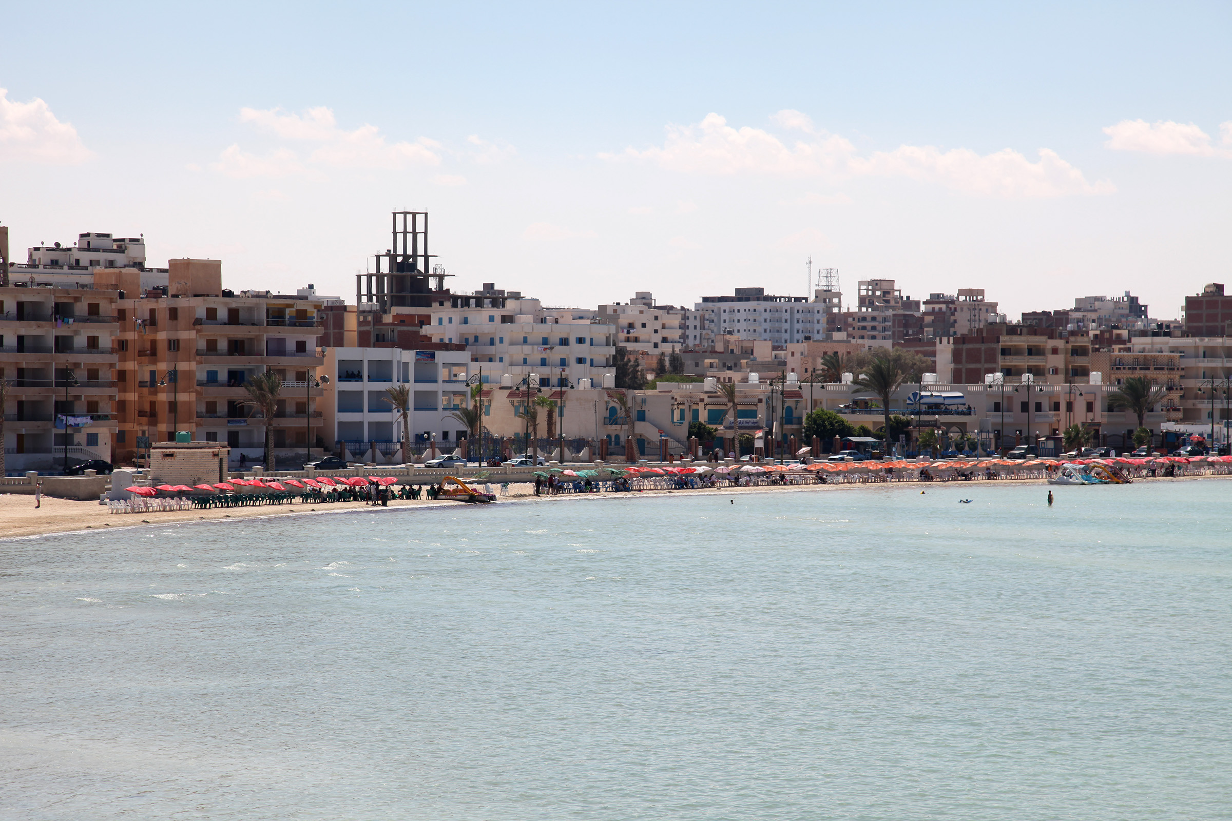 Beach of Marsa Matruh, Egypt